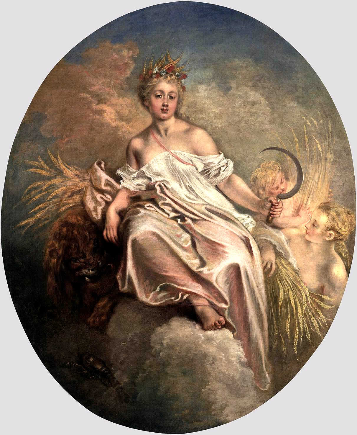 Alternative title(s): Summer